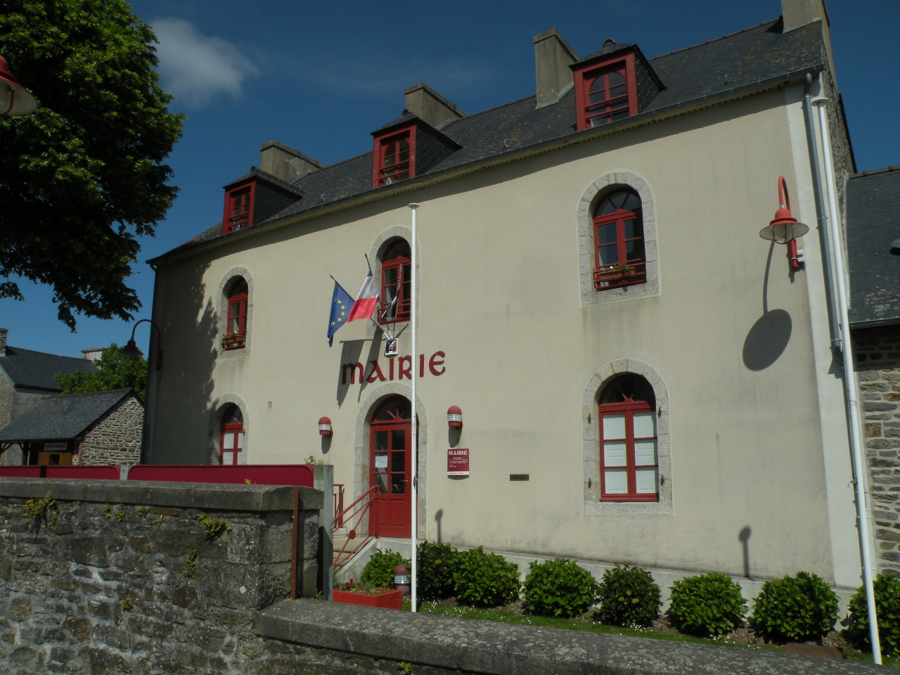 Town hall of Le Minihic-sur-Rance.